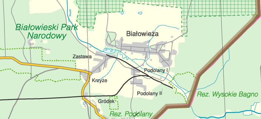 chart of Białowieża